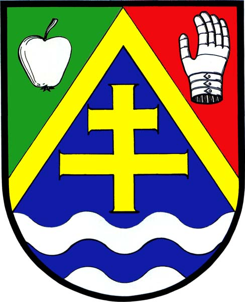 Municipal coat of arms of Sloupno village, Hradec Králové District, Czech Republic.